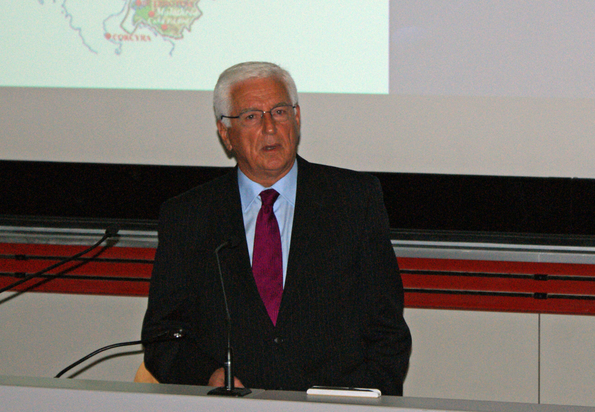 Albanian archaeologist Neritan Ceka at a conference in Geneva, Switzerland